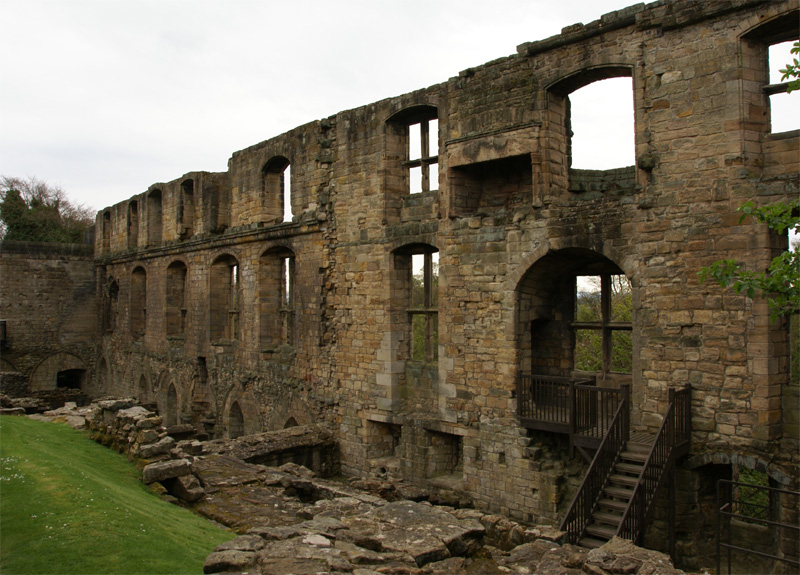 Dunfermline Palace, Dunfermline, Fife, Scotland - view from north west